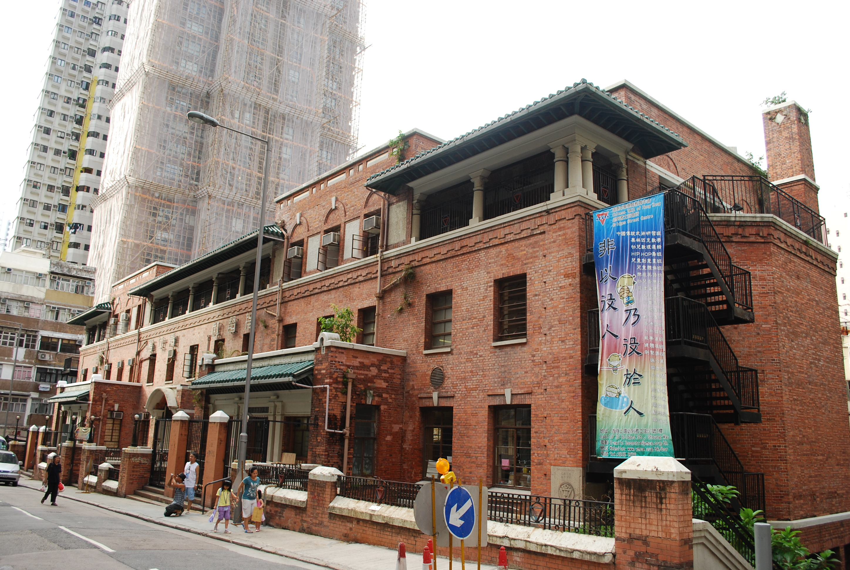 The Bridges Street Centre of The Chinese YMCA of Hong Kong, locates in Sheung Wan.